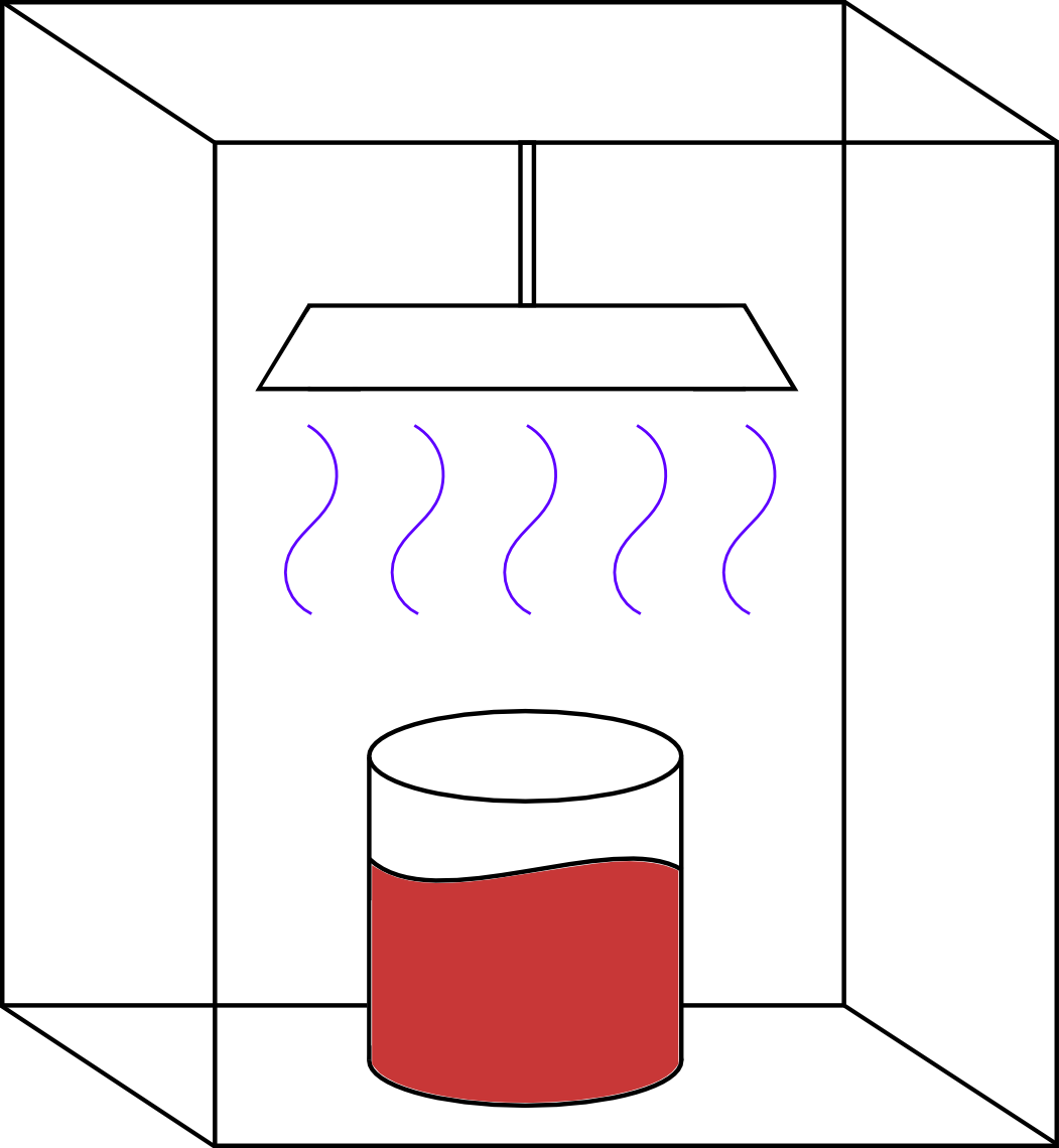 Photocatalysis dye degredation